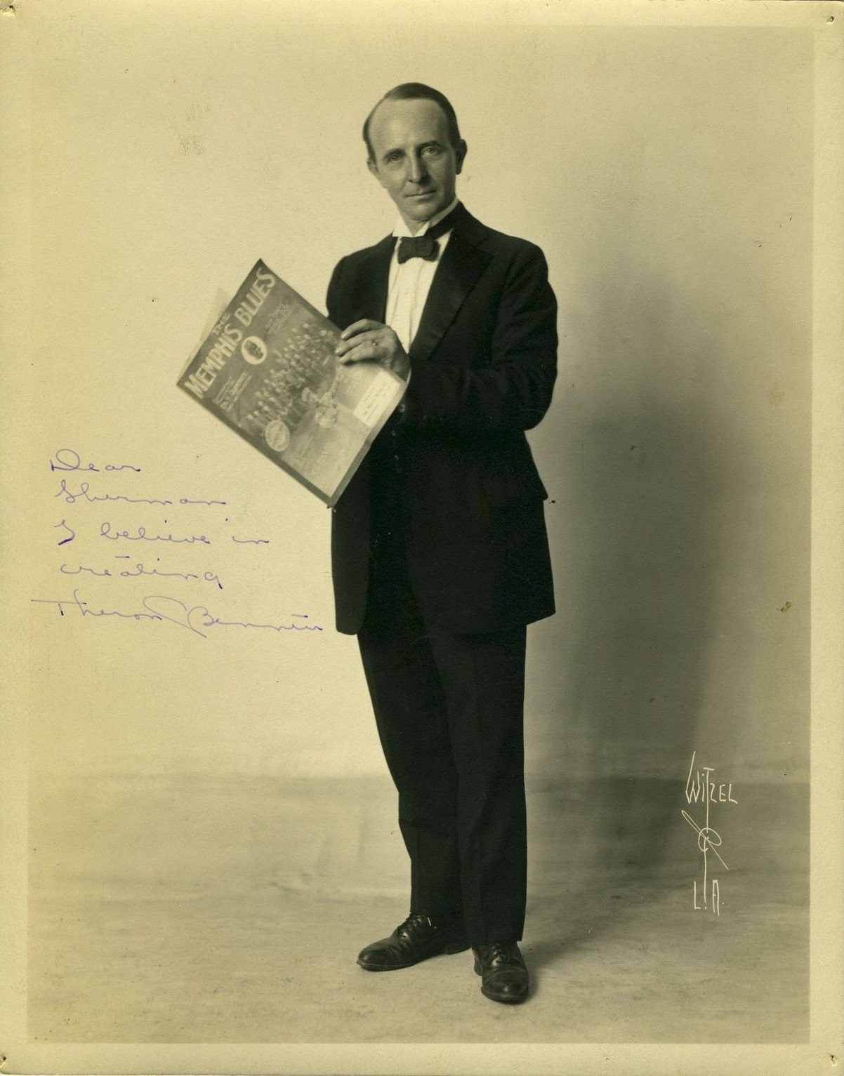 Portrait of American composer & pianist Theron C. Bennett (1879–1937) by American photographer Albert Witzel (1870–1929).